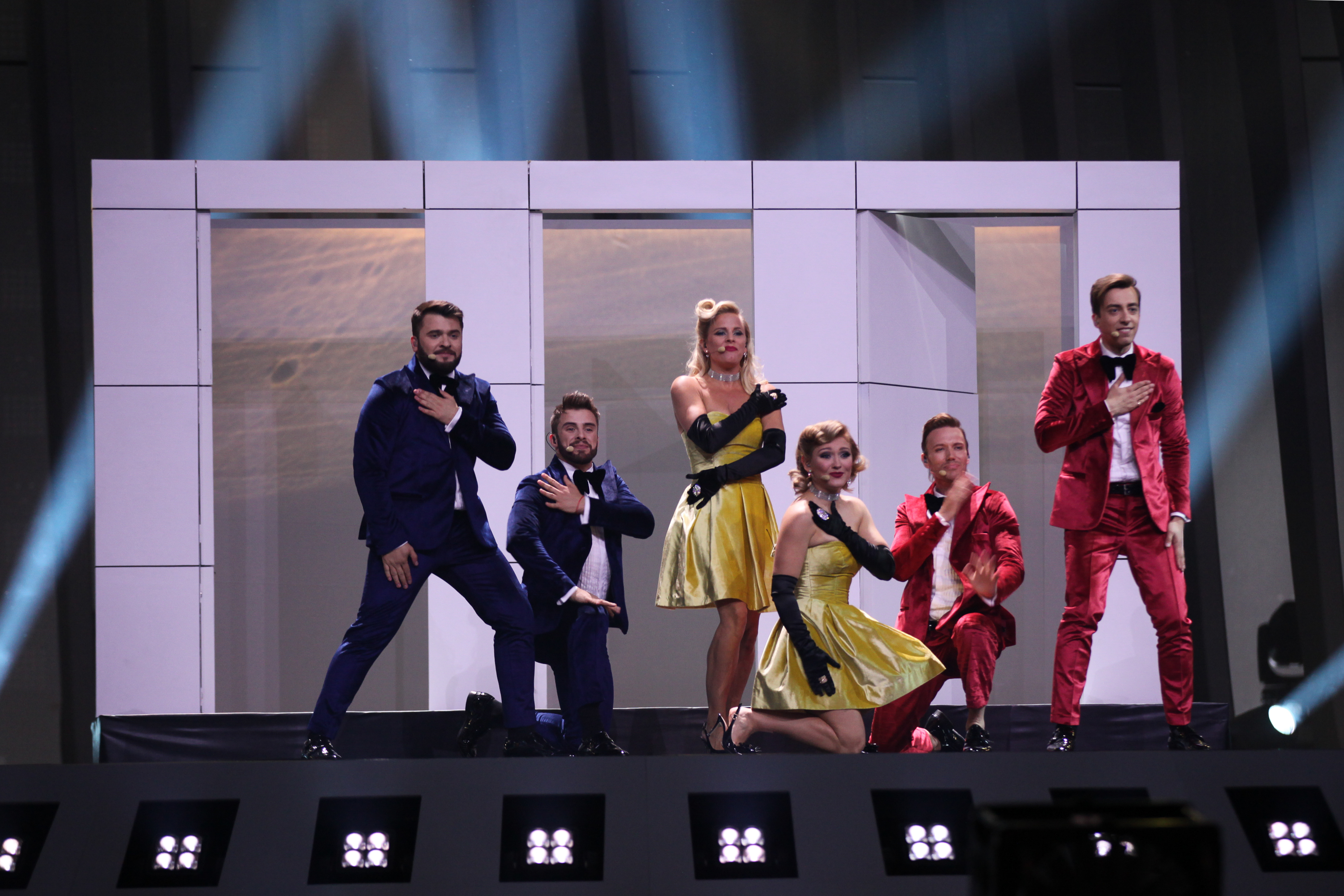 DoReDoS representing Moldova with the song "My Lucky Day" during a rehearsal before the second semi final of the Eurovision Song Contest 2018 in Lisbon.